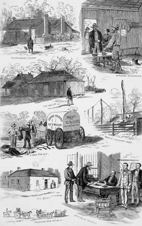 The Kellys at Euora; wood engraving.